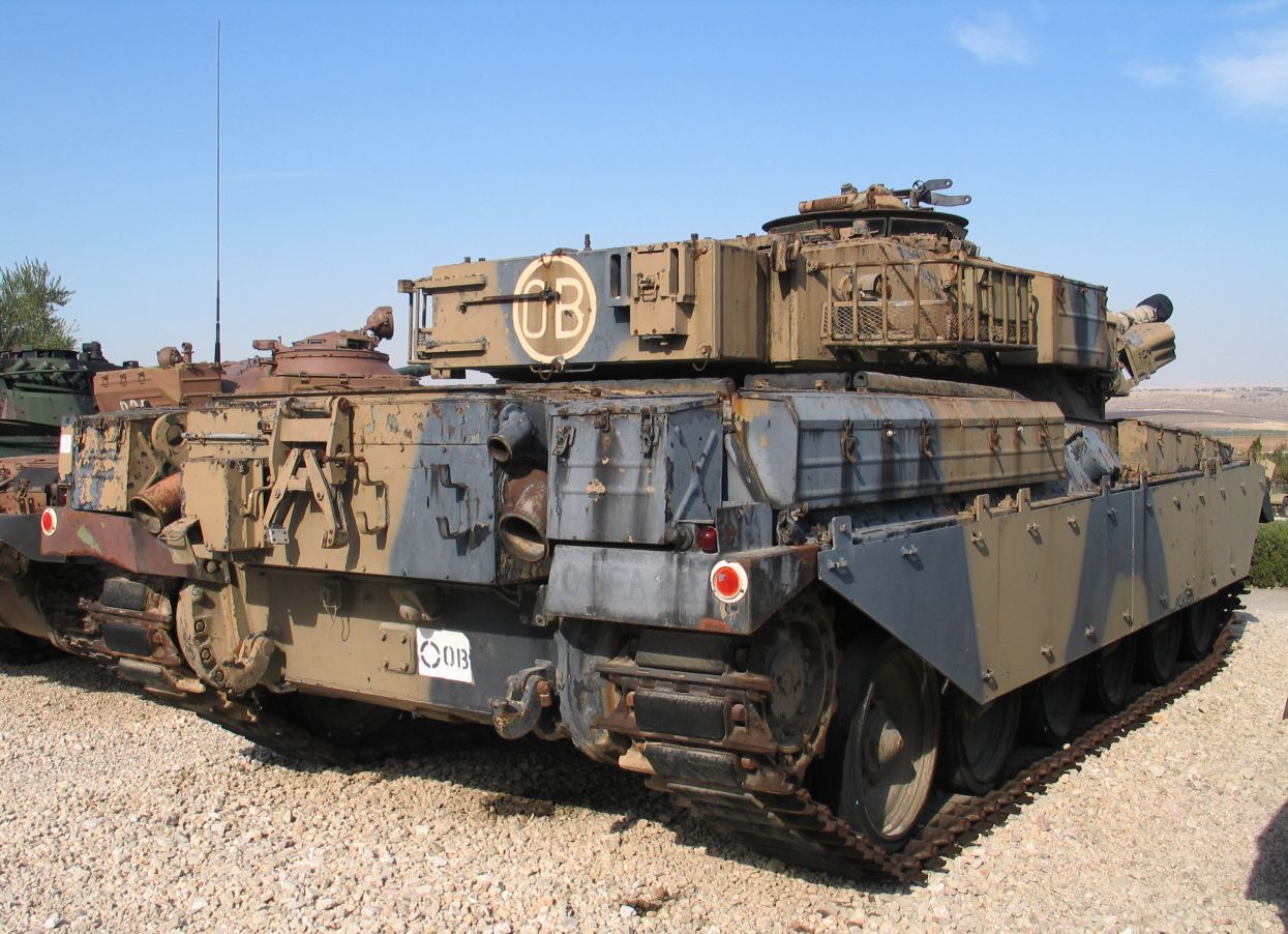 Description: FV 4201 Chieftain MBT in Yad la-Shiryon Museum, Israel. 2005. Source: Photo by me, User:Bukvoed.